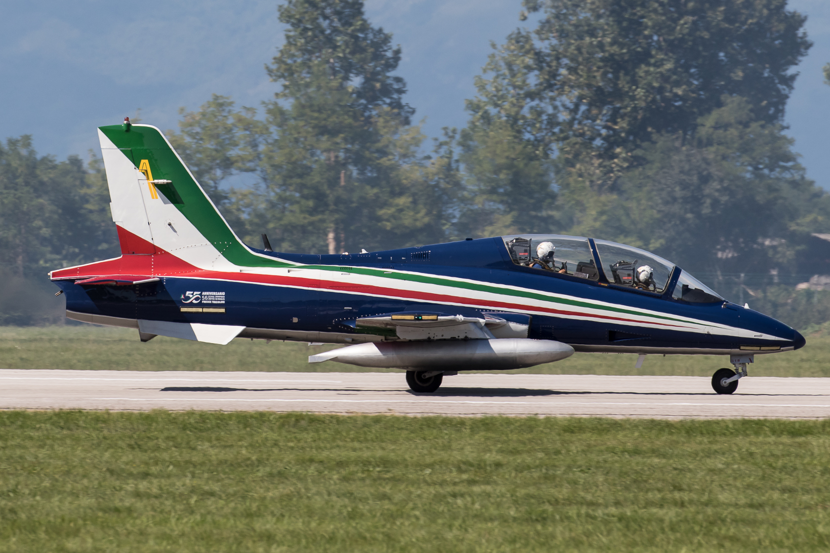 Aermacchi MB-339PAN Pony 1 MM54510 (cn 6726/121/AA058) taxy